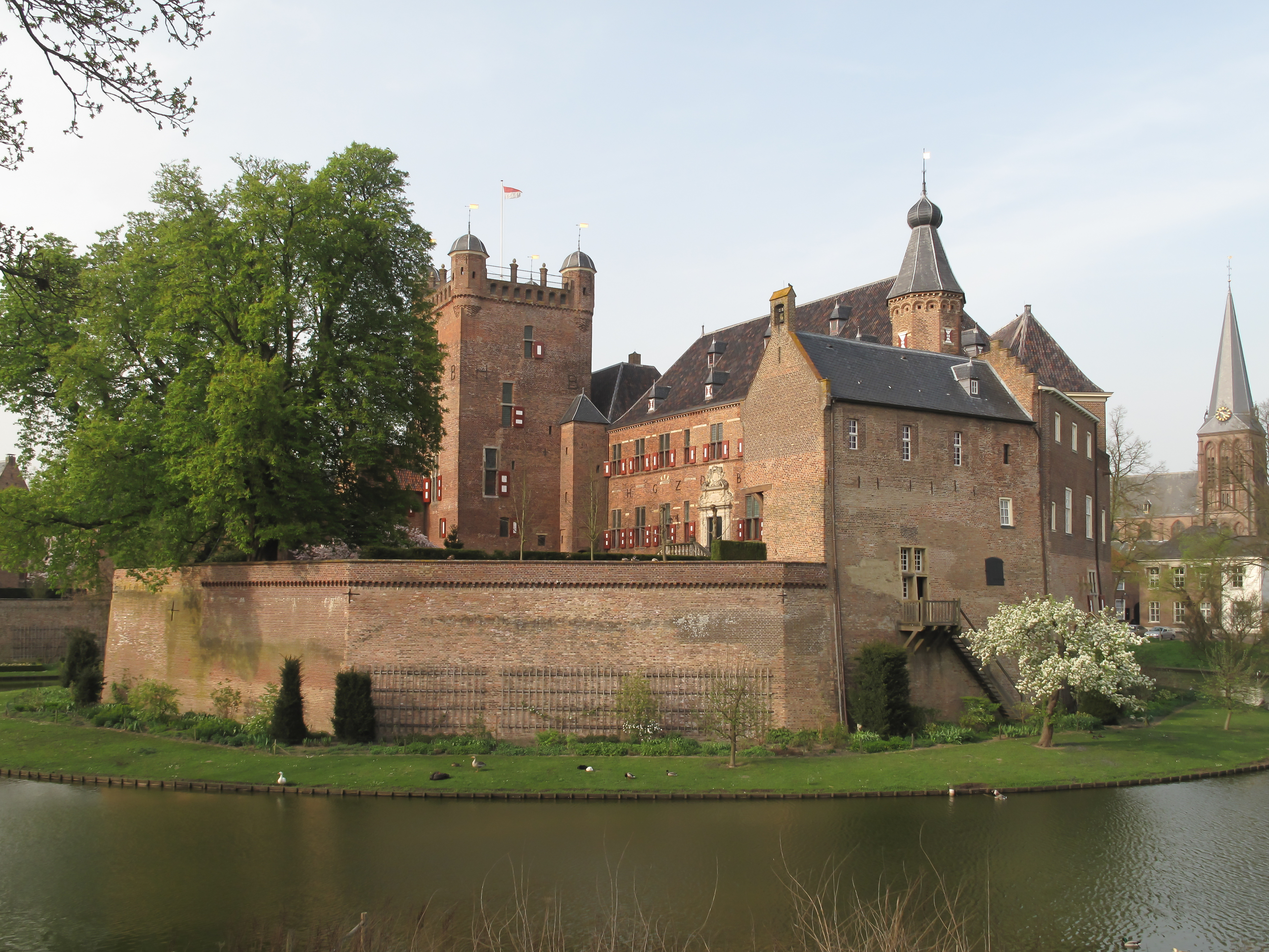 's-Heerenberg, castle: huize Bergh